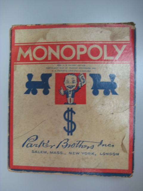 This is a small box version of the original 1935 monopoly game. The box came with a separate board